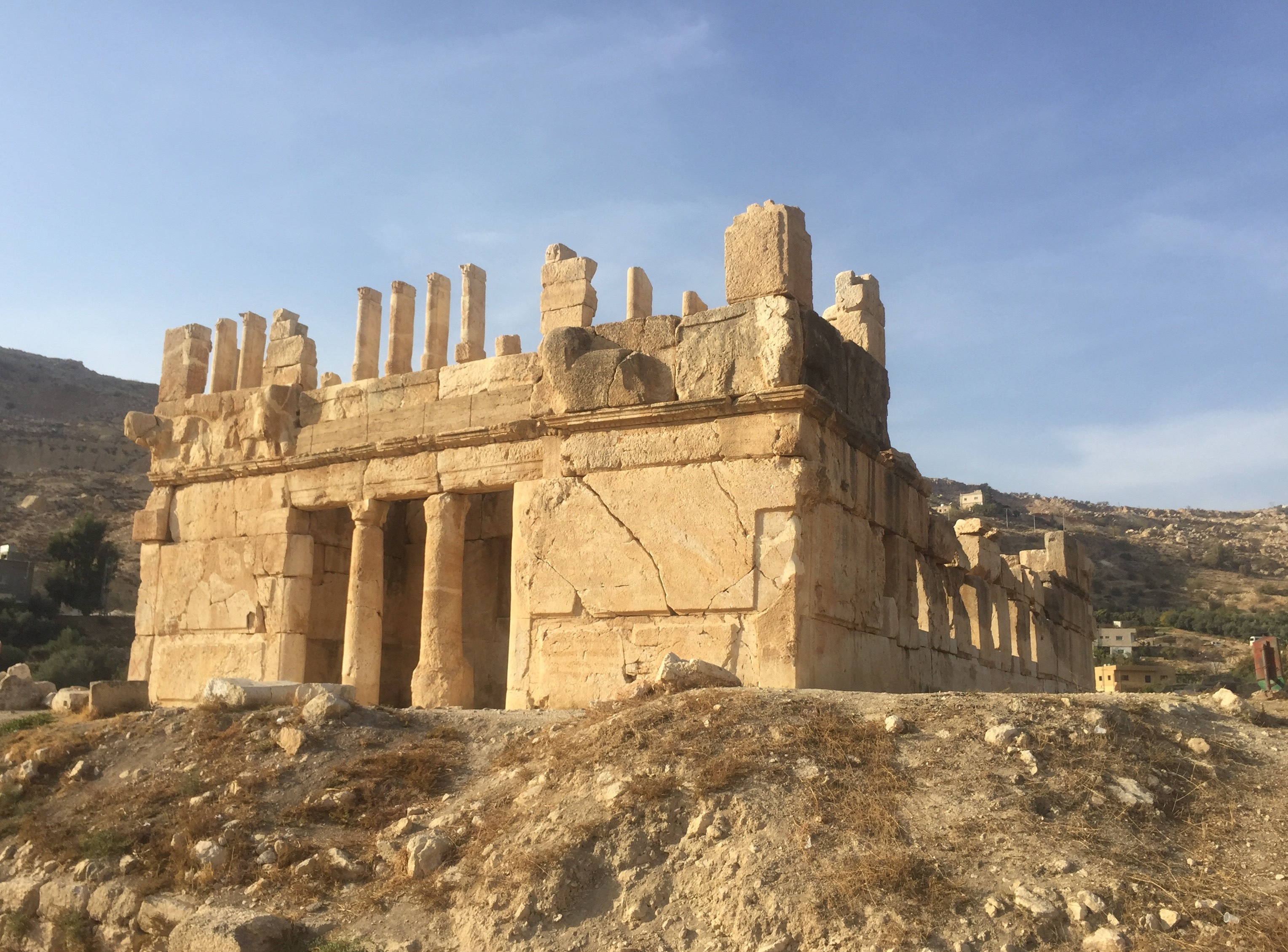 Qasr Al-Abd, Iraq Al-Amir, Amman, Jordan.